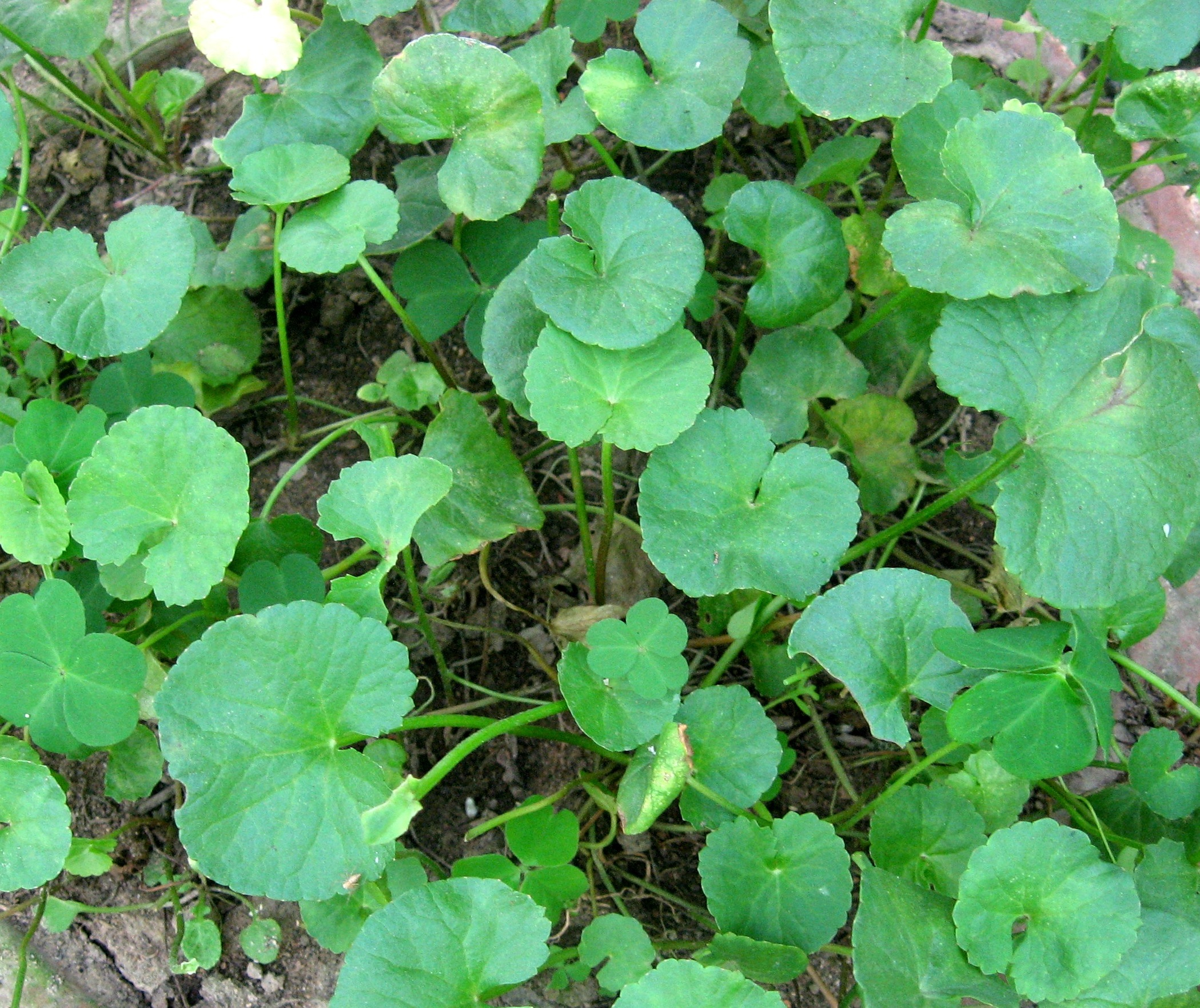 Scientific name: Centella asiatica